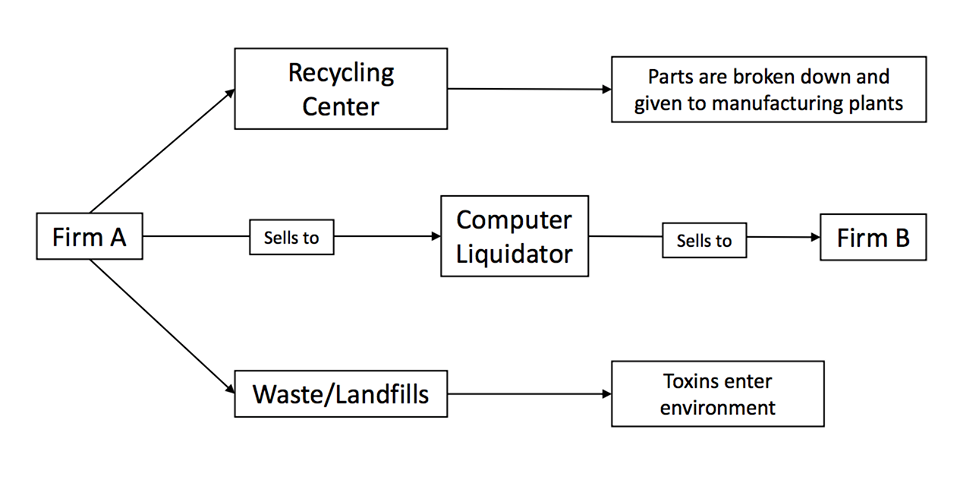 It is a flowchart detailing the Computer Liquidation Process